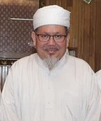 North Sumatra Deputy Governor Musa Rajekshah attended the Tabligh Akbar event with KH Tengku Zulkarnain, at Bandar Setia Foot Ball Field, Deliserdang, Sunday (01/05/2020) night.